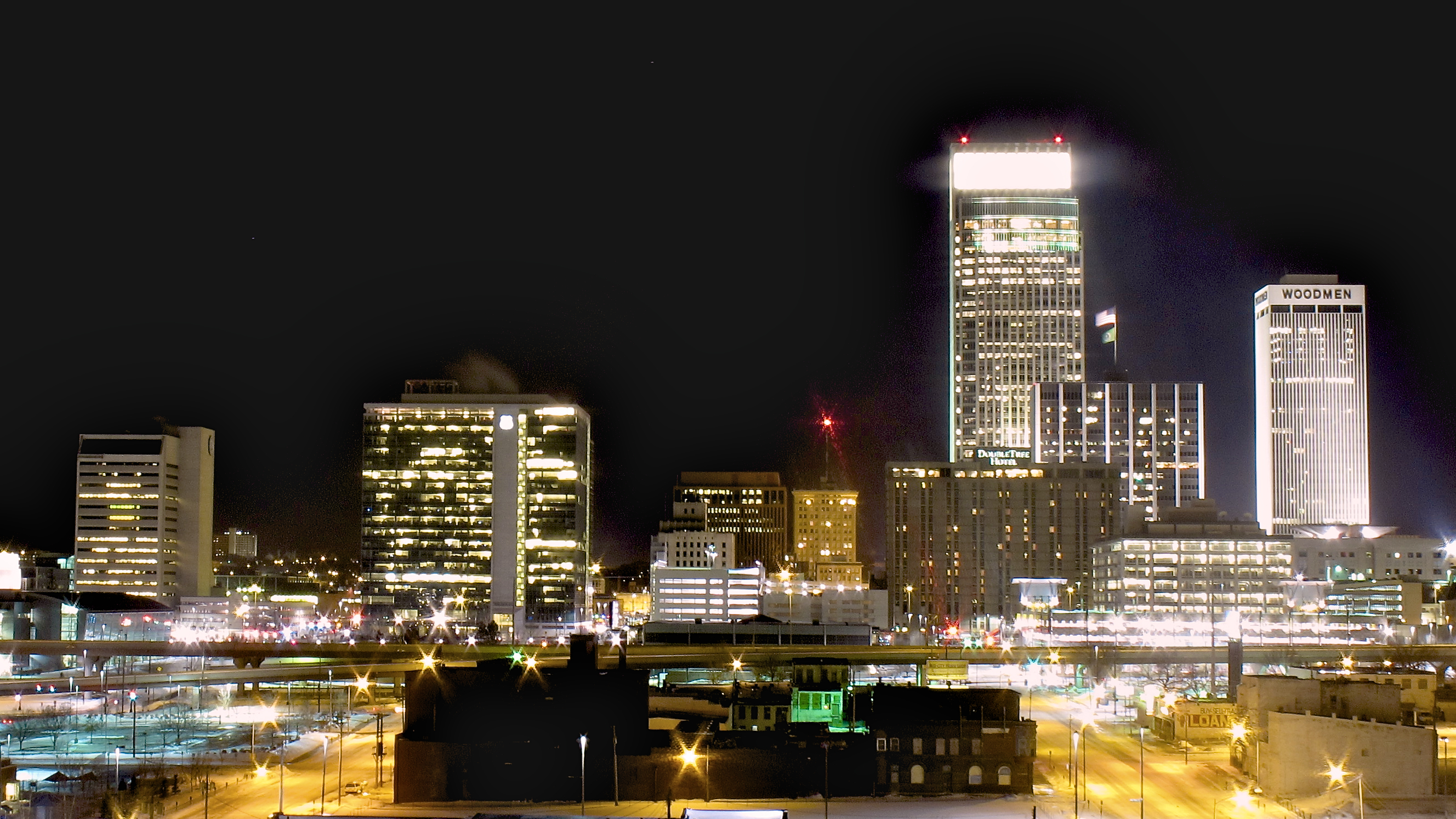 Long exposure of Downtown Omaha at night looking south.